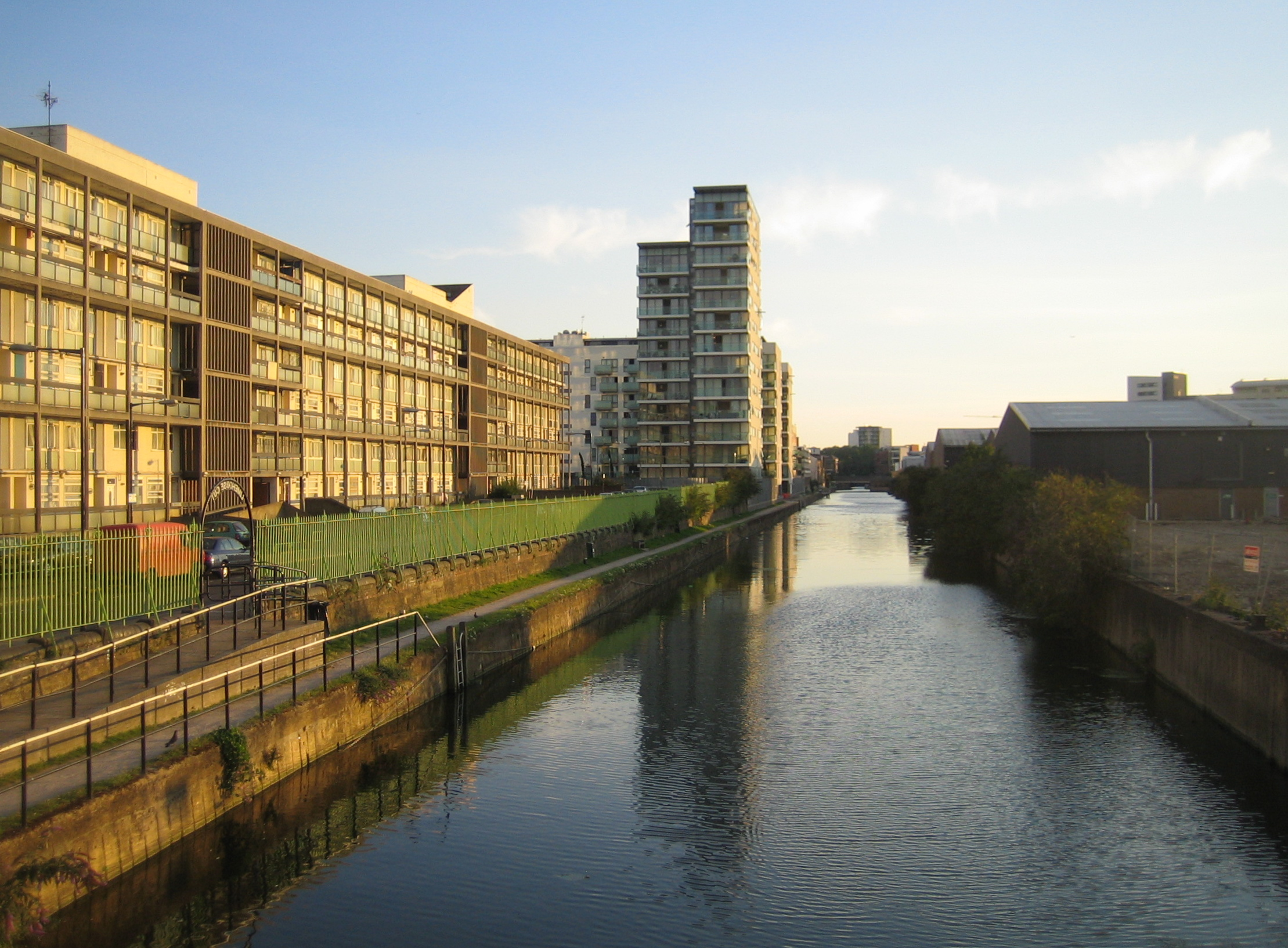 Limehouse Cut (canal) at Cotall Street from Upper North Street, near Bow Common Lane, East London, UK